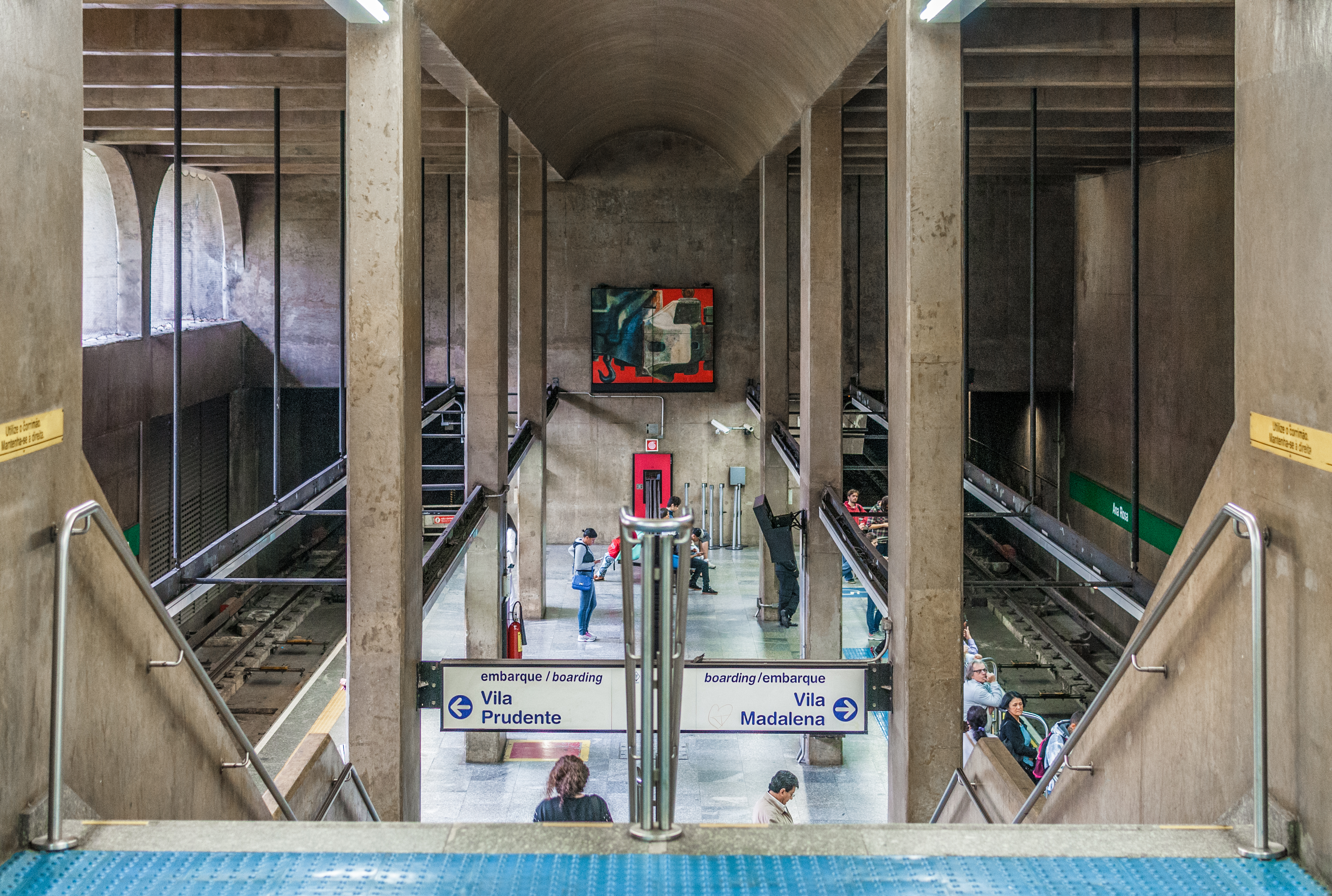 Ana rosa, São Paulo Metro, Line green and blue conection, Brazil